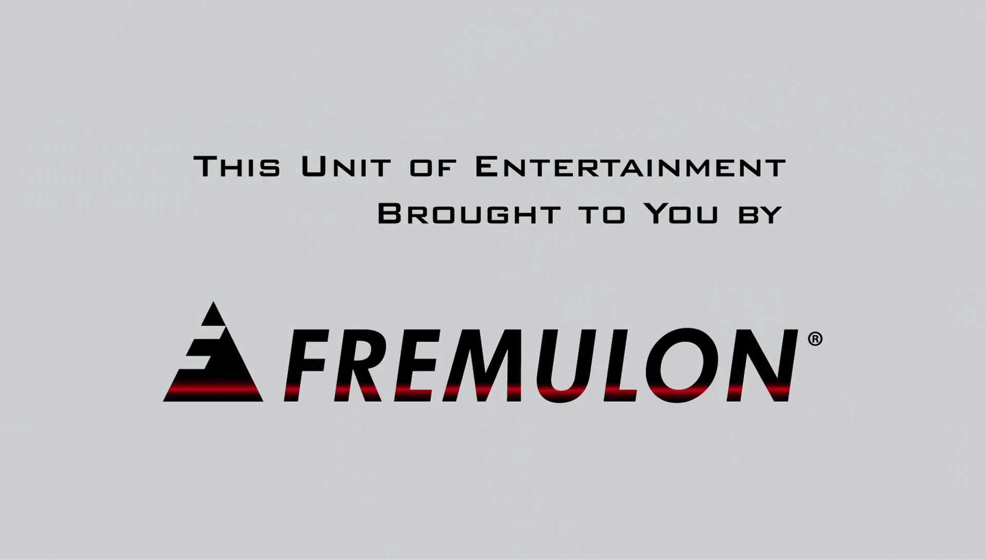 Fremulon Closing Logo (Brooklyn Nine-Nine Season 1 DVD, Screenshot using VLC media player)